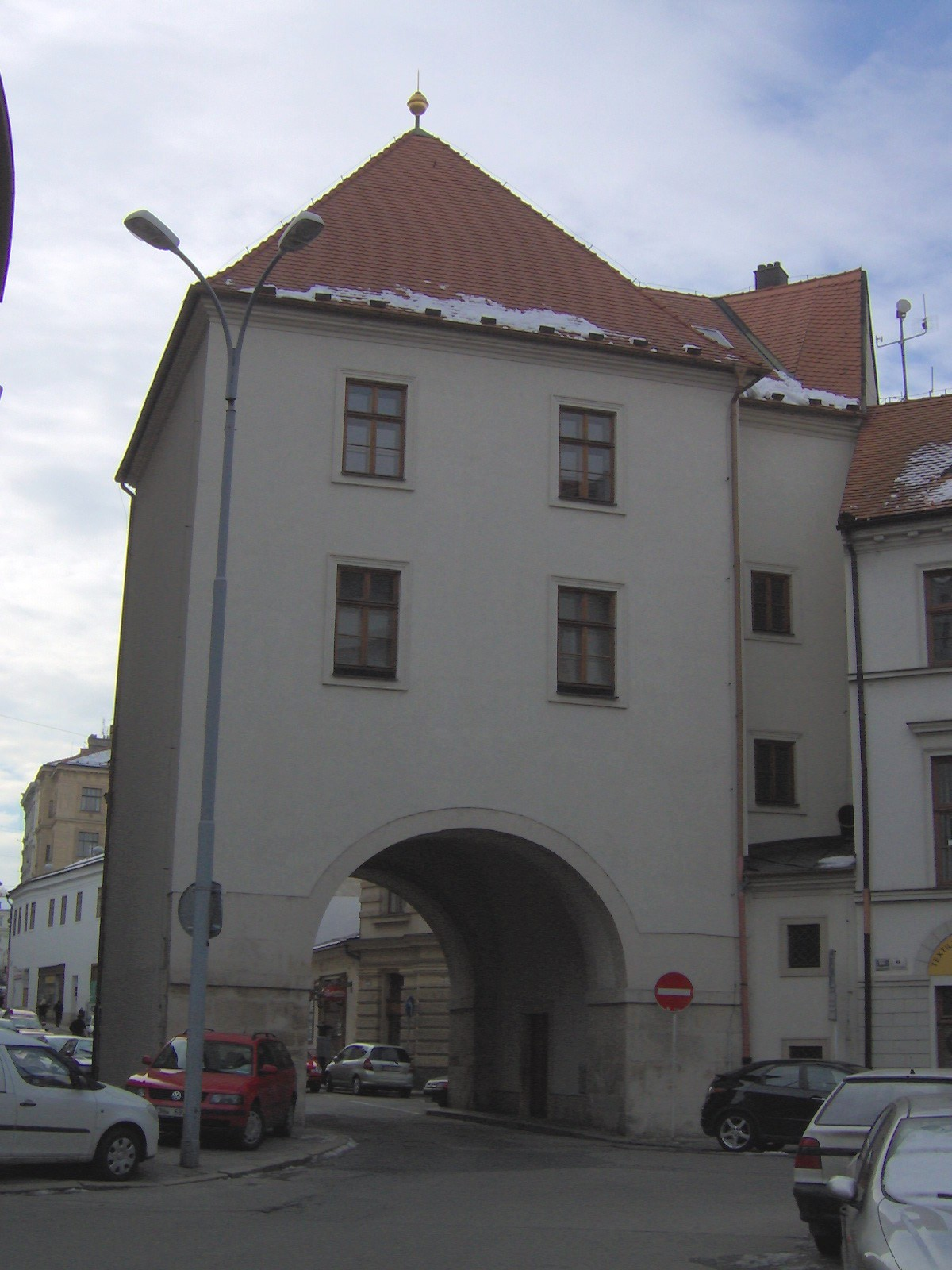 Měnín Gate, Brno, Czech Republic